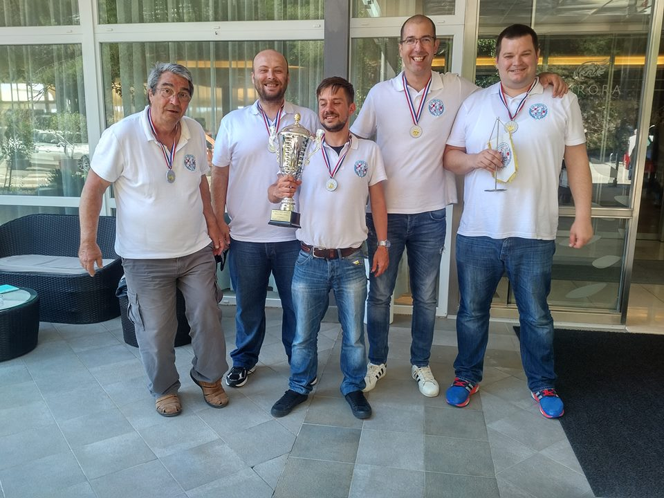 Fotografirano poslije osvajanja kupa Hrvatske u Malom Lošinju 2017.